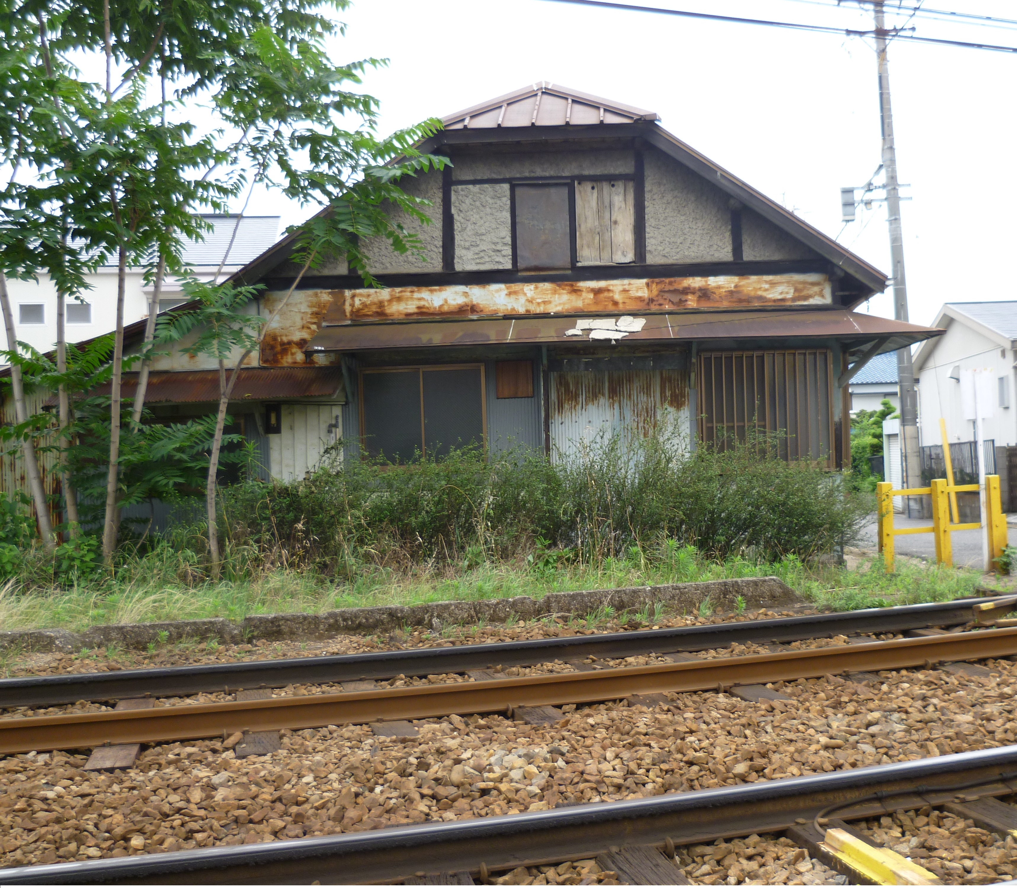 Kasaderamichi Station (now demounted)